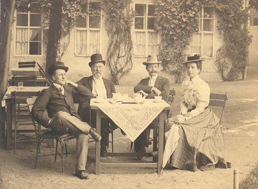 Greek mathematician Constantin Caratheodory (Κωνσταντίνος Καραθεοδωρή) (1873-1950) (left) sitting with his father, brother-in-law George Streit, and his sister Julia. At Carlsbad, Czechoslovakia 1898